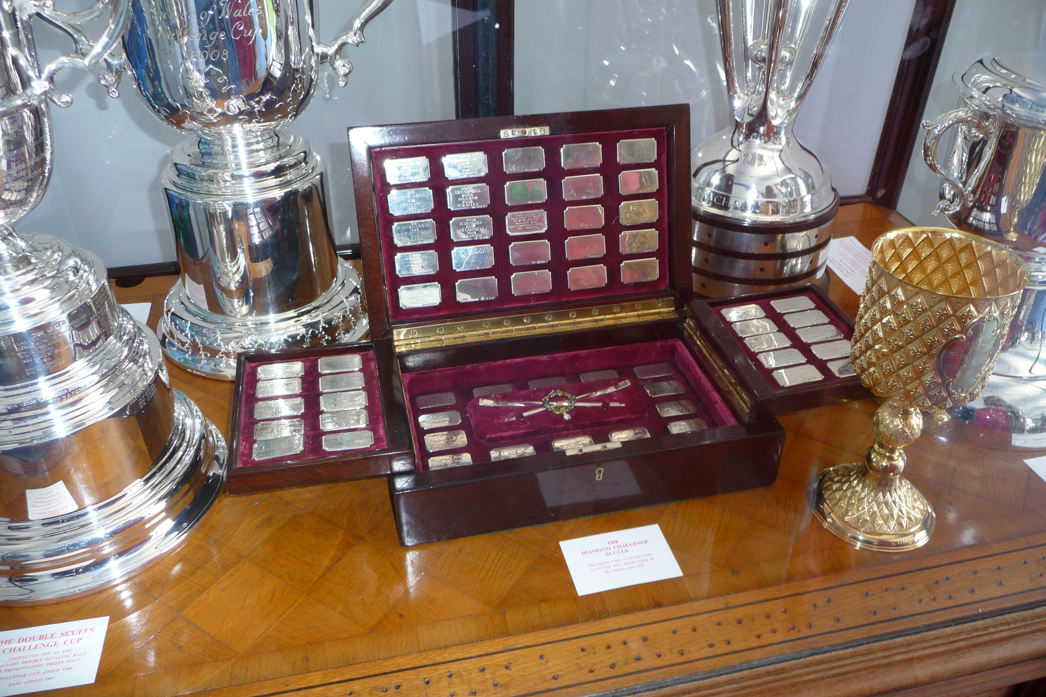 The Diamond Challenge Sculls Trophy (centre, in wooden box), photographed in the Prize Room of the Stewards Enclosure at Henley Royal Regatta 2010